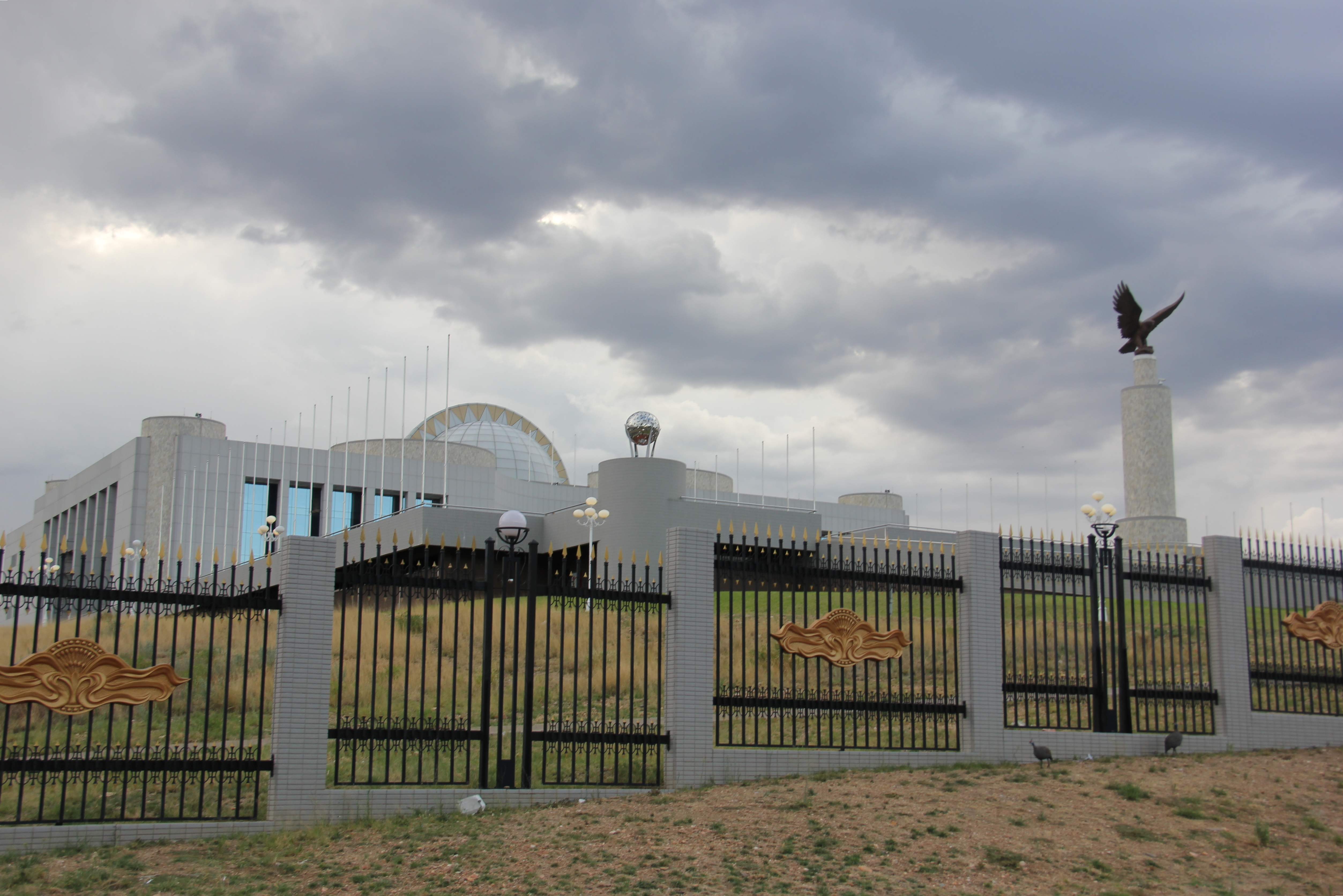 North Korean built!